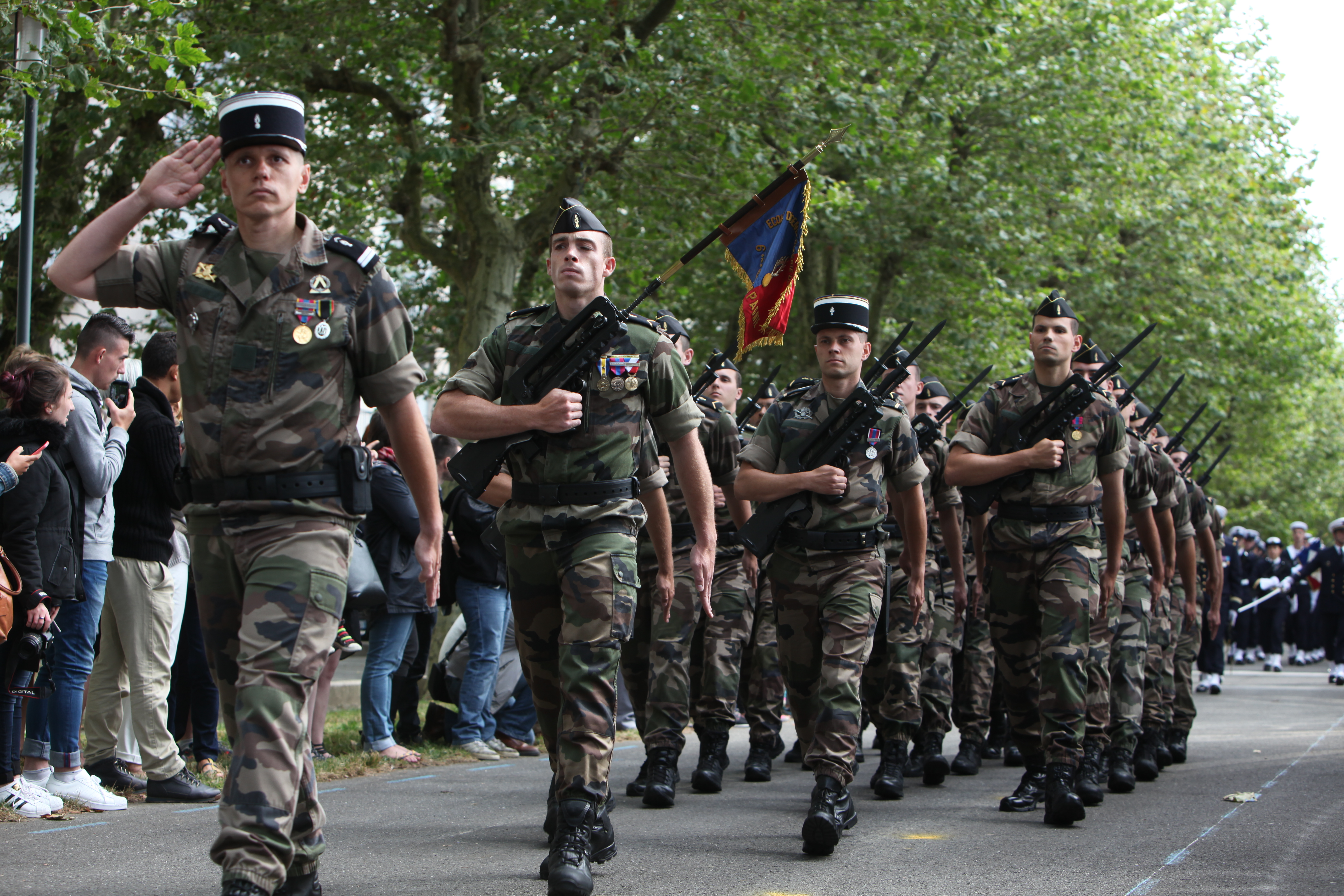 Personnel from the Gendarmerie Academy (of Chateaulin ?) attending ceremonies of the 14 July 2015 in Brest